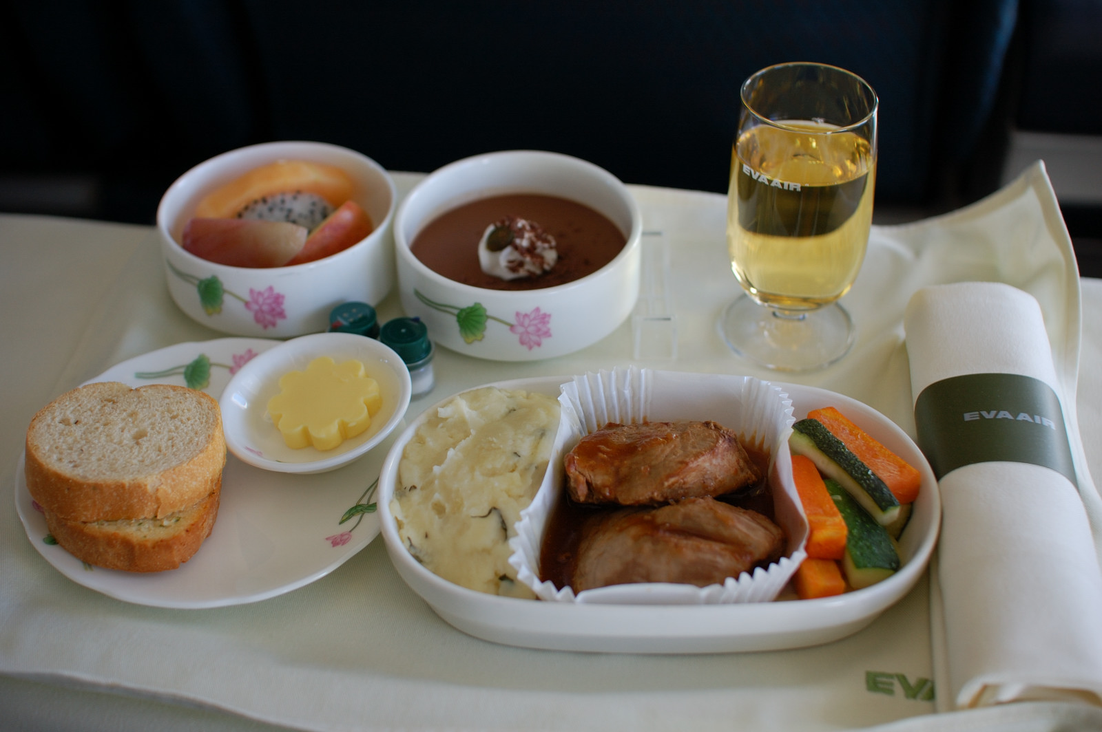 EVA Air dinner